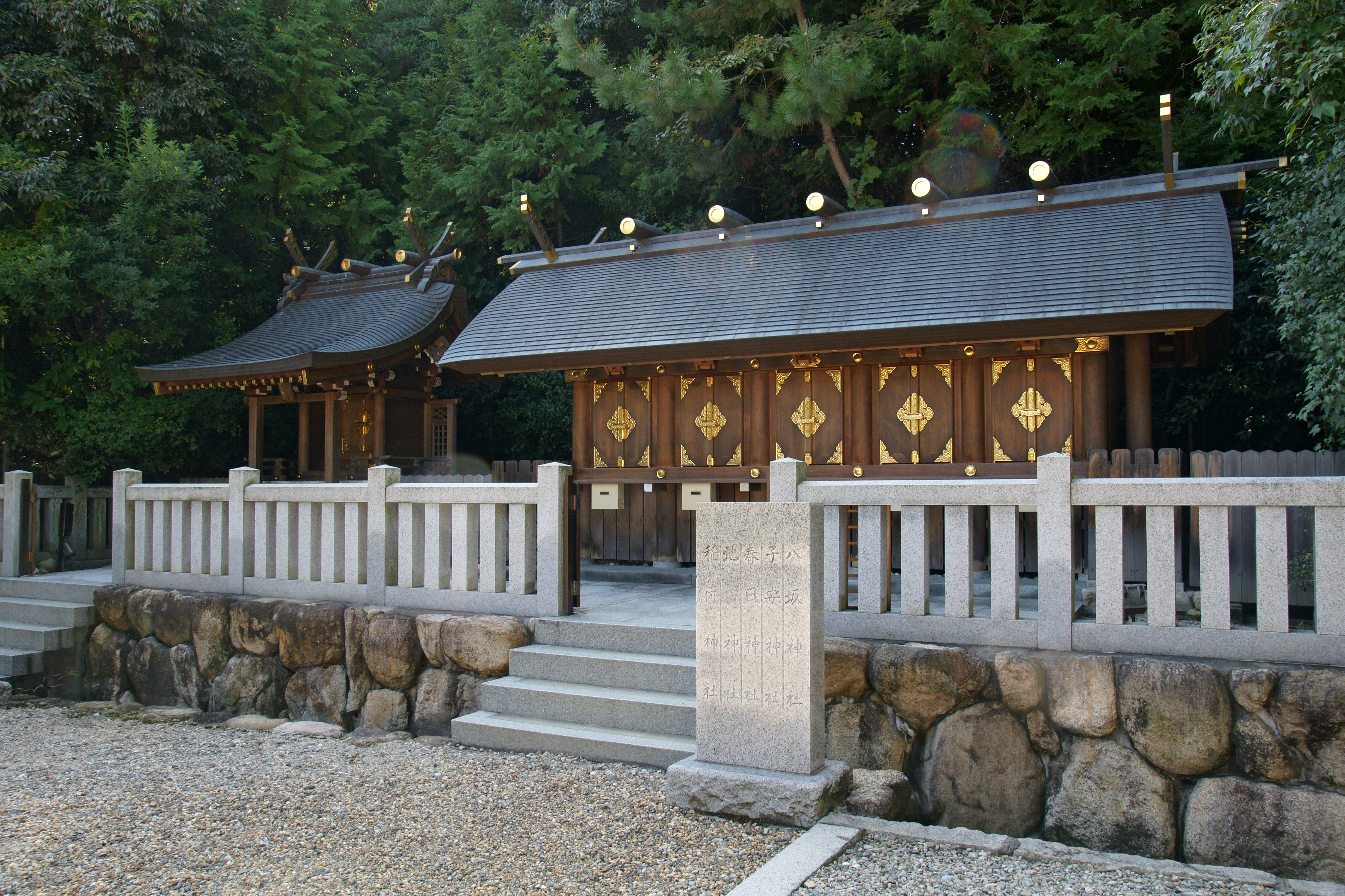 Hirota Shrine (Hirota-jinja) in Nishinomiya, Hyogo prefecture, Japan